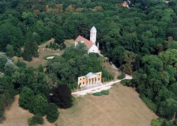 Alcsútdoboz, Fejér County, Hungary. The conserved Portico of the destroyed Habsburg-Palace. Építész: Mihály Pollack. The park today is the Alcsút Arboretum.)